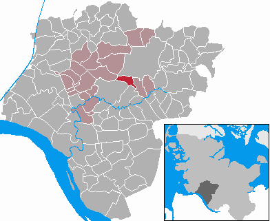 This map shows the area of the municipality Schlotfeld in the Kreis (district) Steinburg, Schleswig-Holstein, Germany.